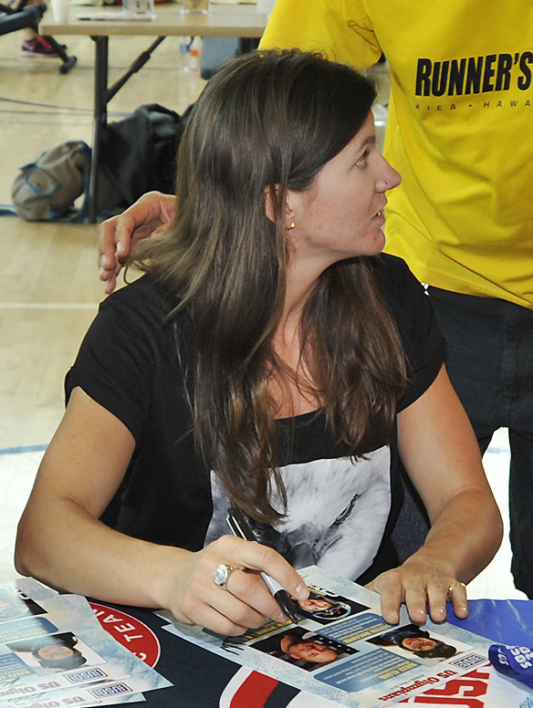 U.S. Olympic athletes Steven Holcomb, left, bobsledder, Kelly Clark, snowboarder, and Andrew Weibrecht, alpine skier, sign autographs and meet with military members and dependents during a fitness and health fair at the Joint Base Pearl Harbor-Hickam Fitness Center. Military service members, Department of Defense civilians and contractors participated in the fair, which included information booths, demonstrations and a fire truck pull. (U.S. Navy photo by Mass Communication Specialist 1st Class Daniel Barker/Released)